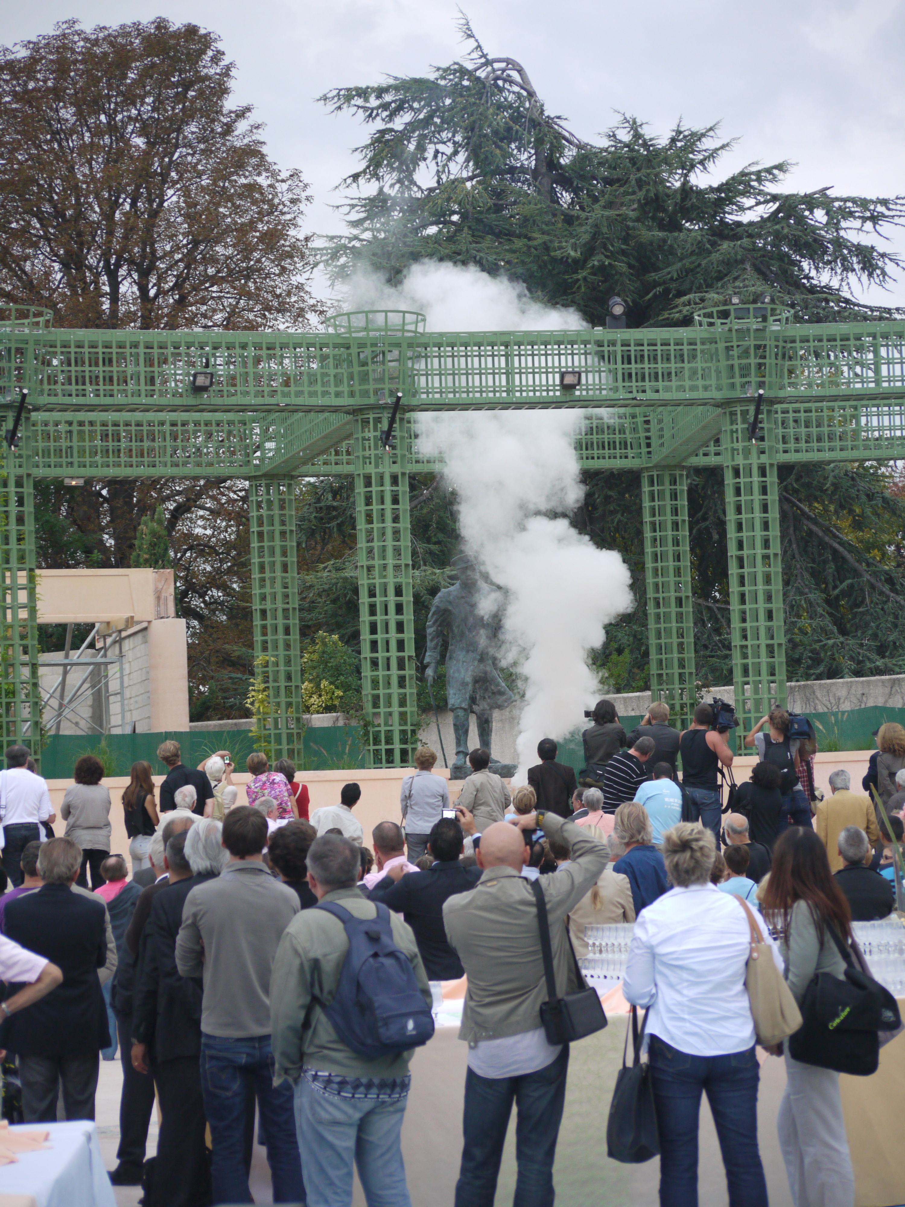 Inauguration of the Statue of Churchill on the 'place du XXeme siècle' in Montpellier on the 17th of september 2010.